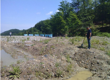 weewrqwdihasdgagsdiasudpalscdi